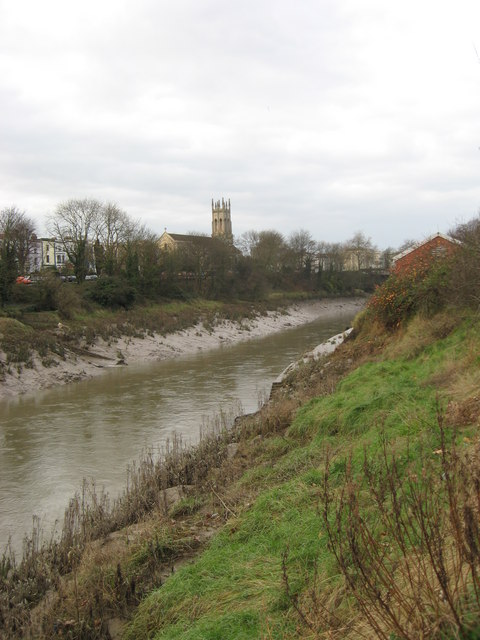 River Avon, New Cut, Bristol The river Avon, New Cut, looking West towards St Paul's Church, Bedminster.